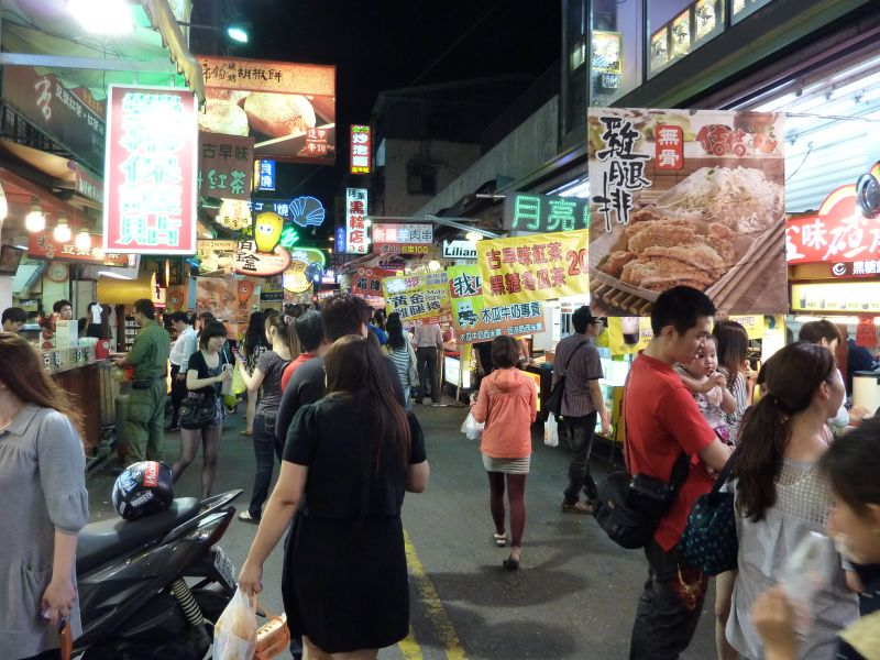 Fengjia nightmarket taichung